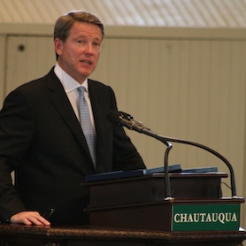 David Westin, ABC NewsDavid Westin, ABC News